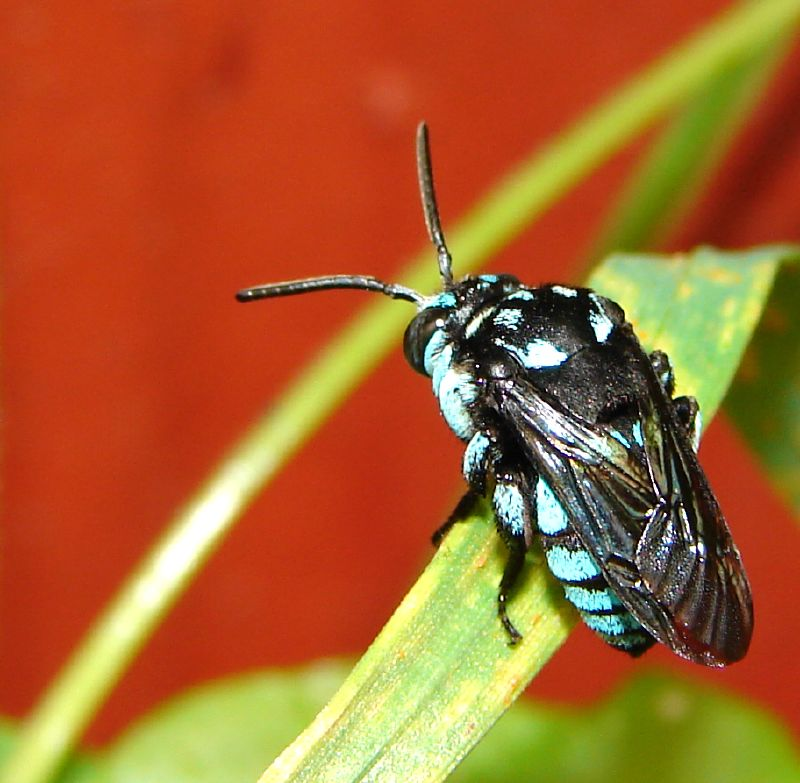 Cloak and Dagger Cuckoo Bee (Thyreus nitidulus), an Australian native.